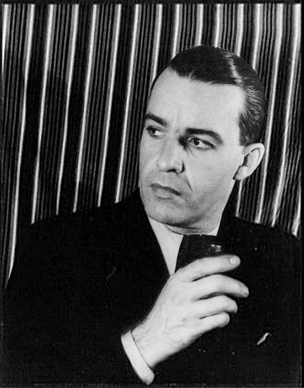 Portrait of Alfred Lunt